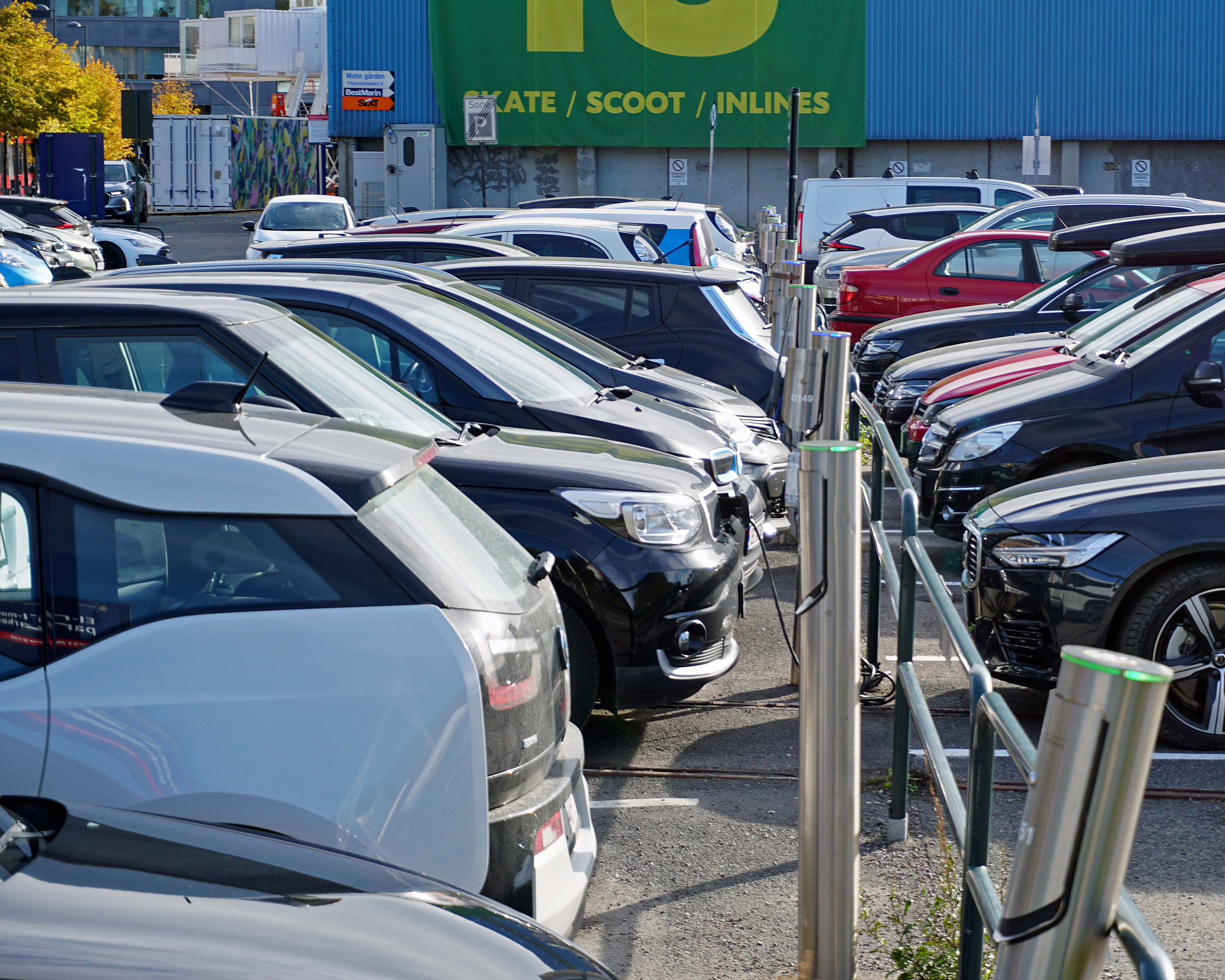 Electric cars charging at a free parking lot exclusive for all-electric vehicles in Oslo, Norway.